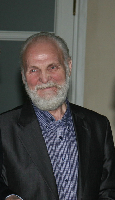 Vladimir Krupin, a Russian writer